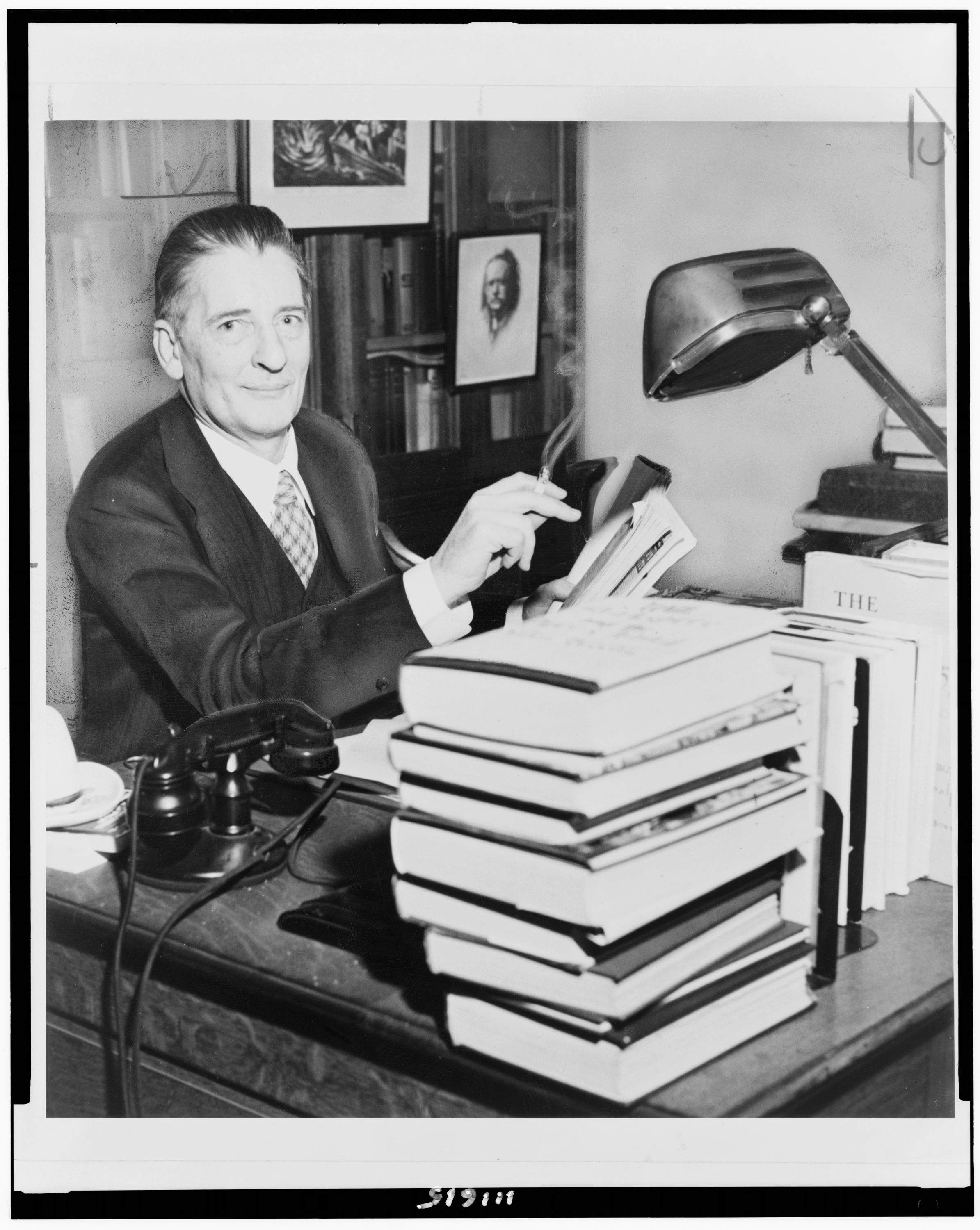 Maxwell Perkins, half-length portrait, seated at desk, facing slightly right / World Telegram & Sun photo by Al Ravenna.